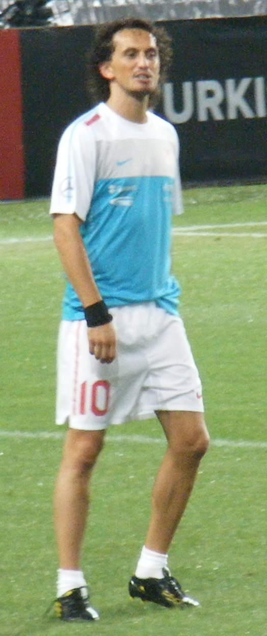 Tuncay Sanli in national jersey at match vs Romania in 11st Aug 2010, Wednesday at Fenerbahce Stadium, Istanbul